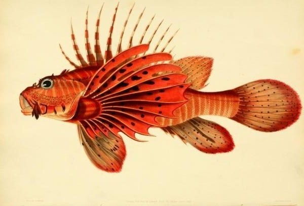 Pterois russelii This illustration identified as Pterois miles syn. Scorpaena miles in other version of file below Plate from A Selection of the most Remarkable and Interesting Fishes found on the Coast of Ceylon. By J.W. BENNETT, Esp. London, 1830.